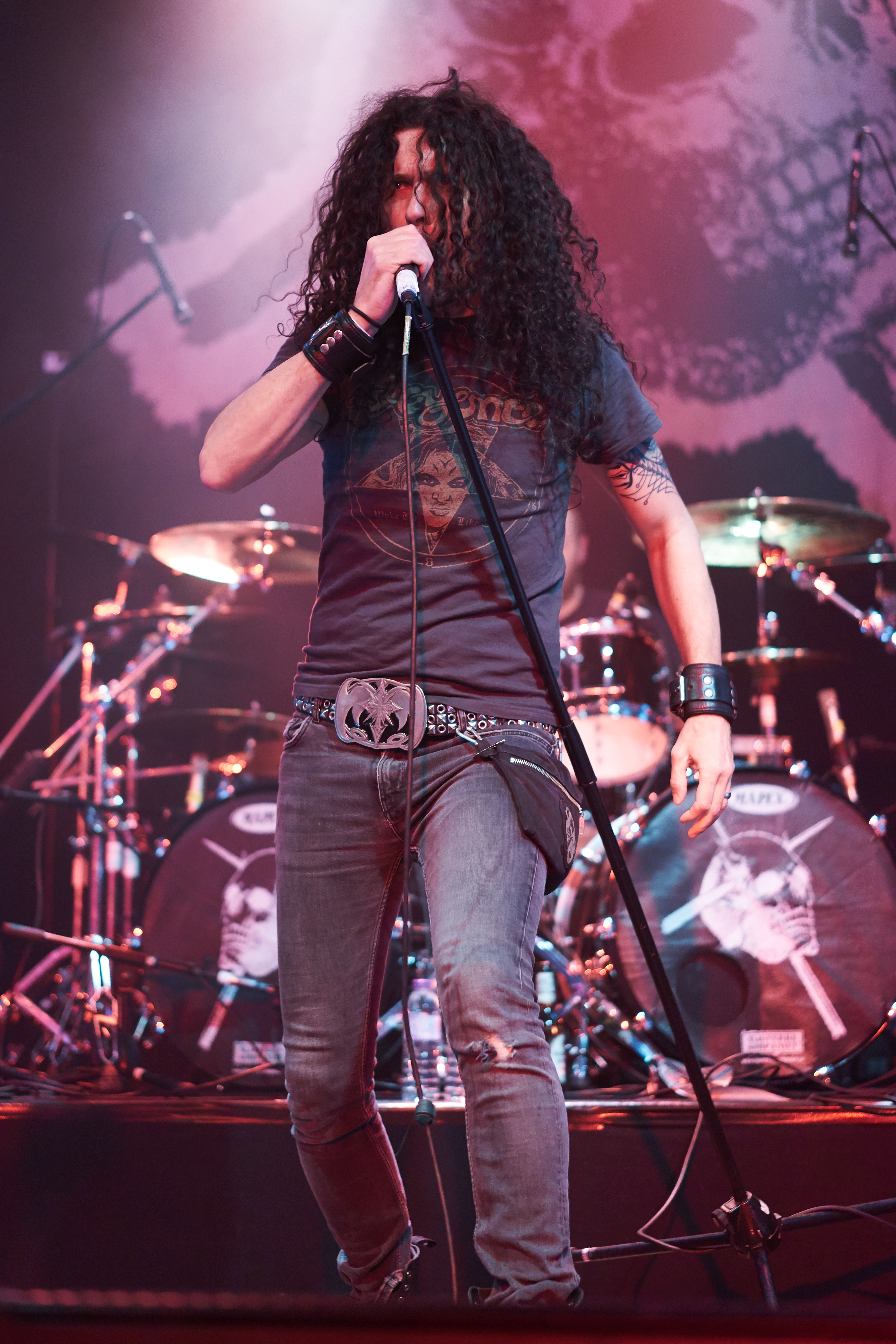 British band Candlemass at Hammer of Doom Festival, Würzburg, Posthalle, 21.11.2015 Festivalsommer This photo was created with the support of donations to Wikimedia Deutschland in the context of the CPB project "Festival Summer". Personality rights warning Although this work is freely licensed or in the public domain, the person(s) shown may have rights that legally restrict certain re-uses unless those depicted consent to such uses. In these cases, a model release or other evidence of consent could protect you from infringement claims.